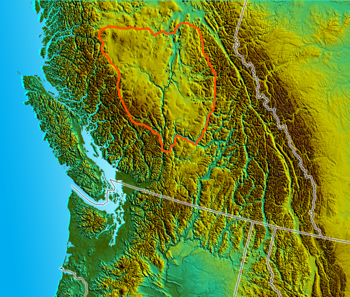 adapted from 708px-South_BC-NW_USA-relief.png which is in Wikimedia Commons